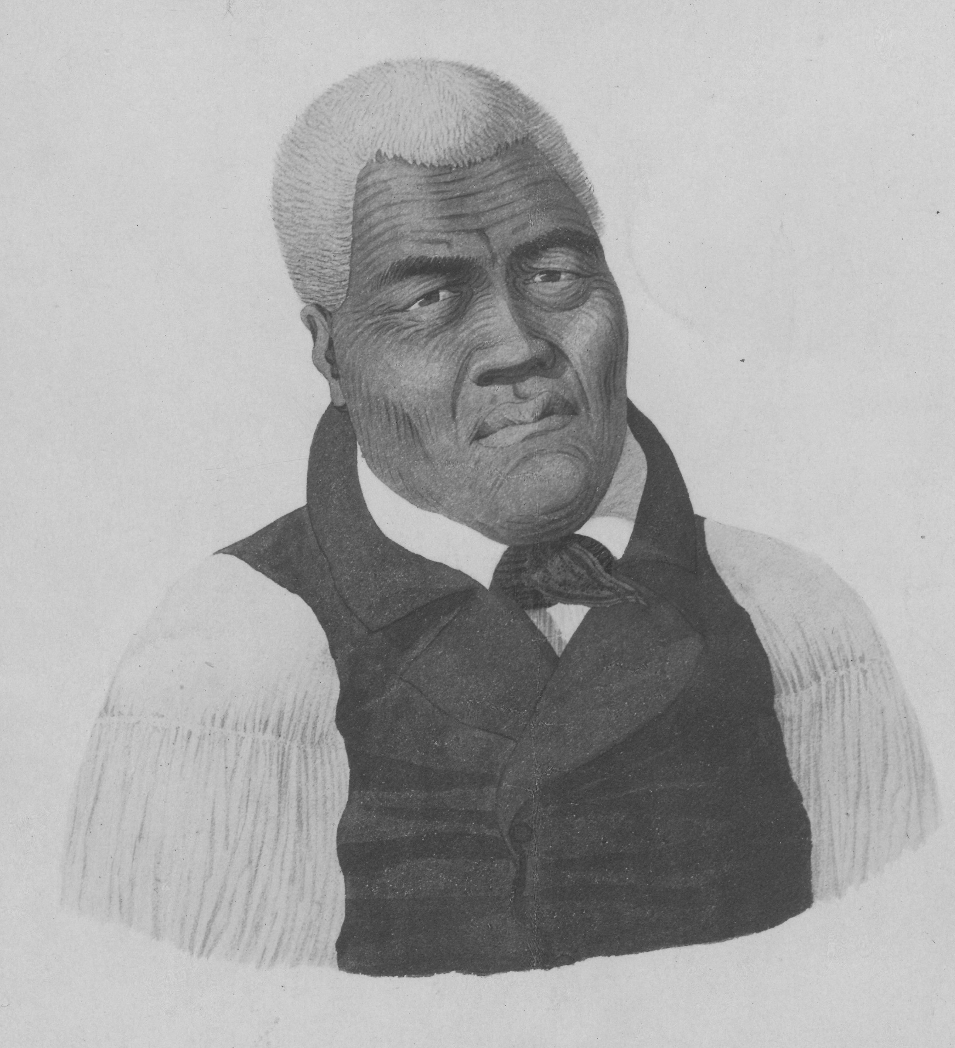 Painting of Kamehameha I in western clothing, a copy of the painting by Louis Choris.